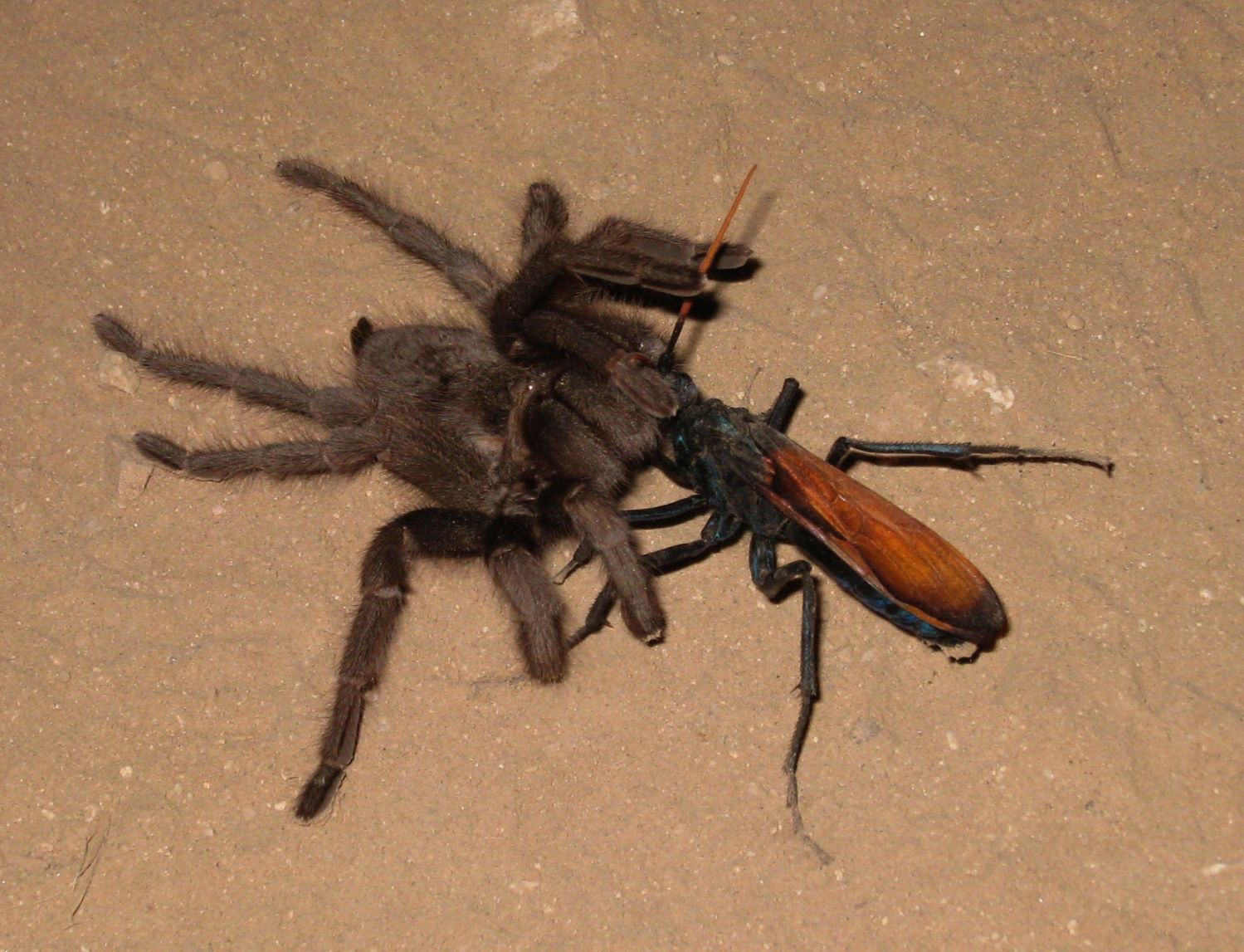 A tarantula hawk wasp dragging an envenomed tarantula across the ground.